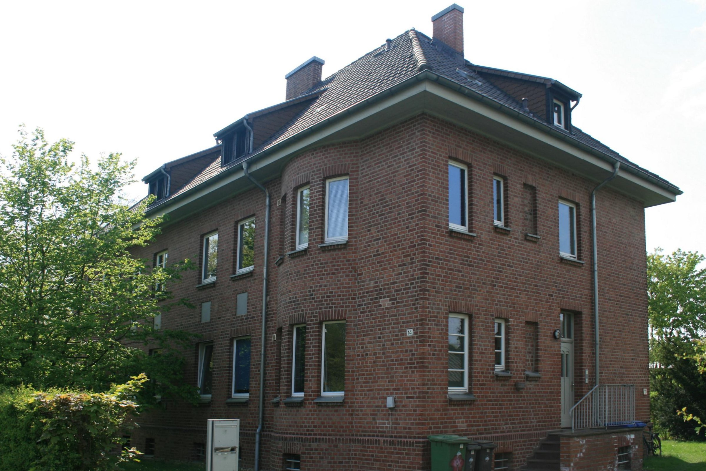 Cultural heritage monument No. 1/001t in Düren